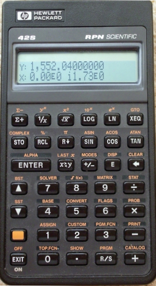 The HP-42S showing the result of square root of negative three in the X register.